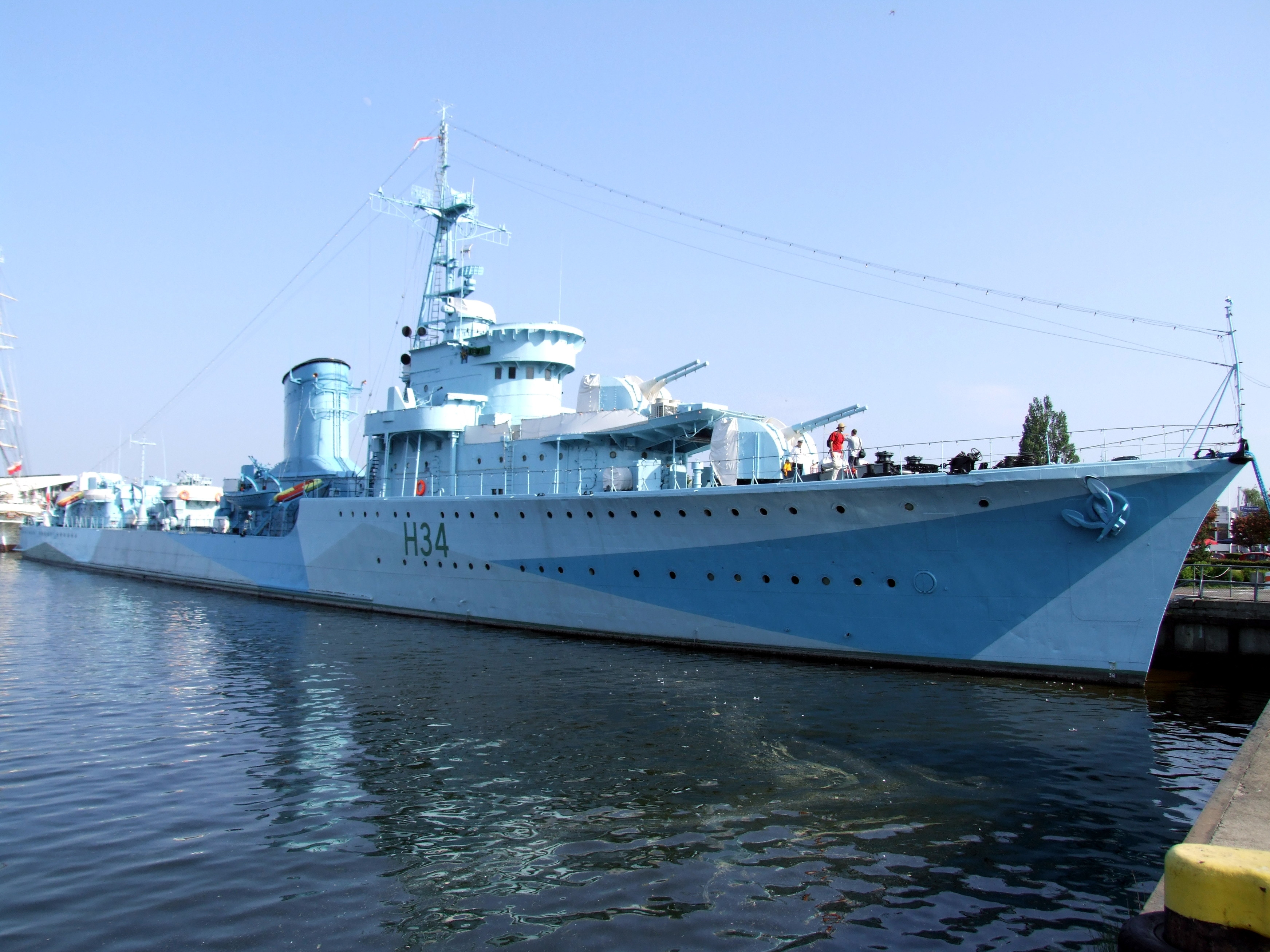 ORP Błyskawica (camouflage from 2006)